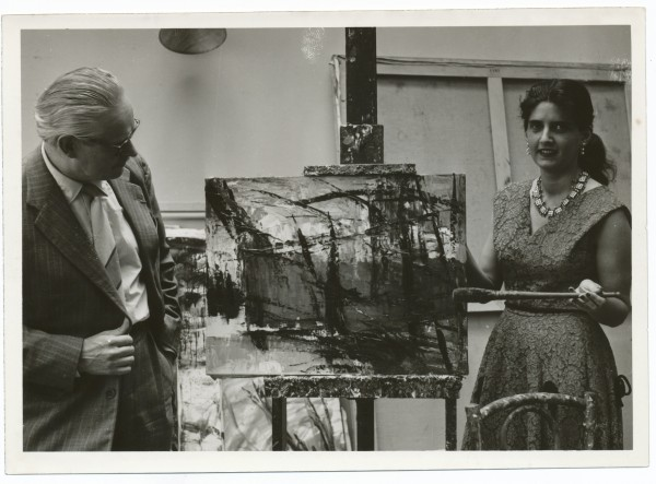 Soshana with friend in front of her painting in her Paris studio, France, 1953